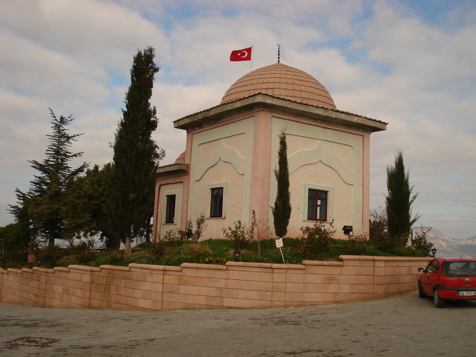 Dursun Fakih's grave in Söğüt